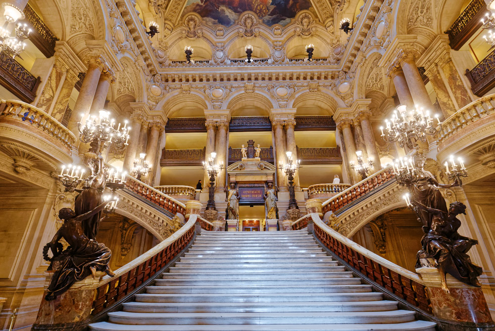 monumental stairway of the palais Garnier opera in Paris